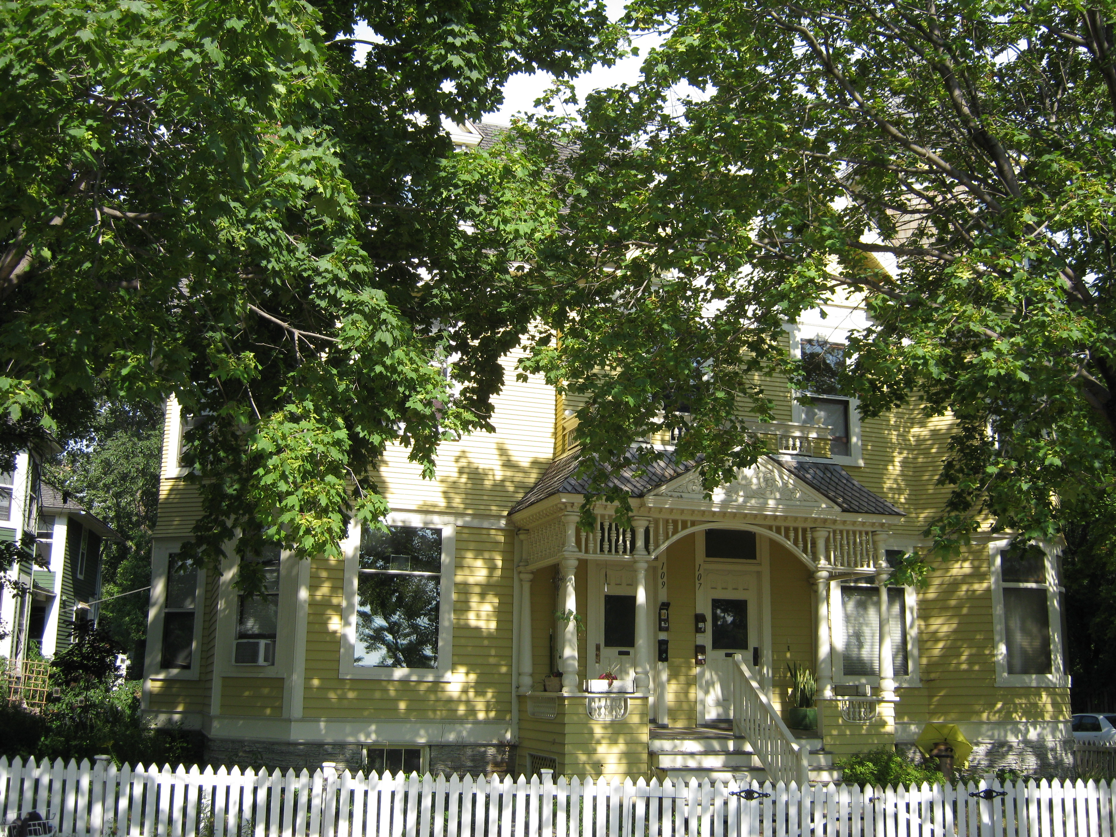 The Frank Griswold House, 107 and 109 Island Ave. W., on Nicollet Island in Minneapolis